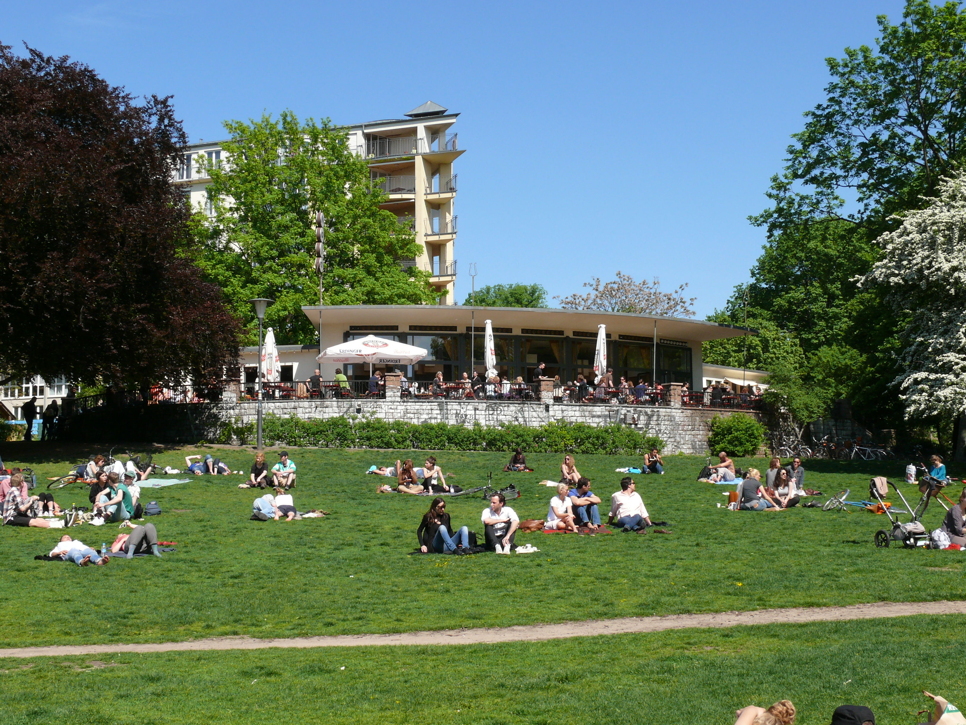 Berlin-Mitte Volkspark am Weinberg